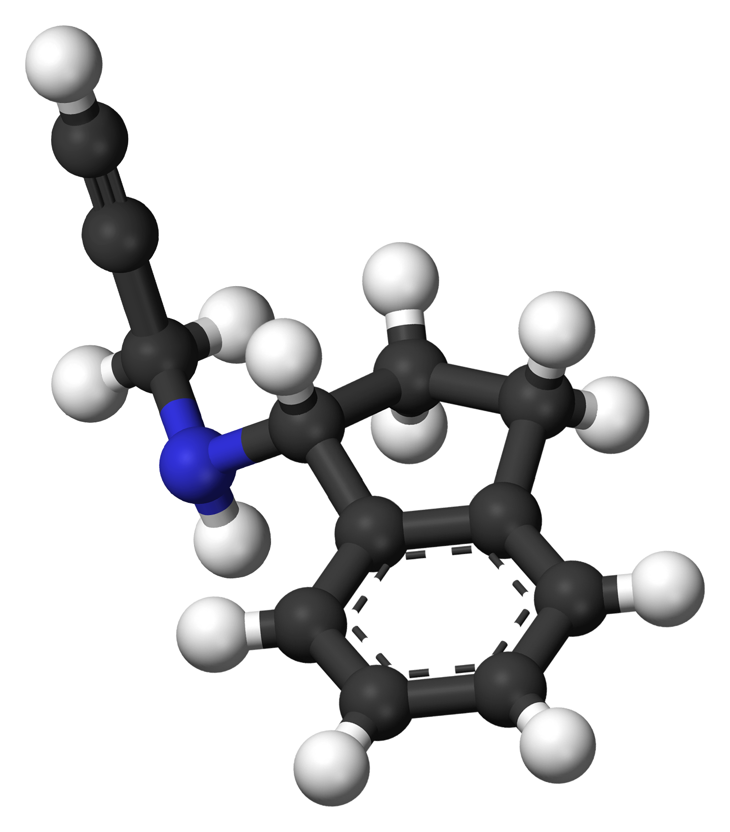 Ball-and-stick model of the rasagiline molecule, a medicine used to treat Parkinson's disease.